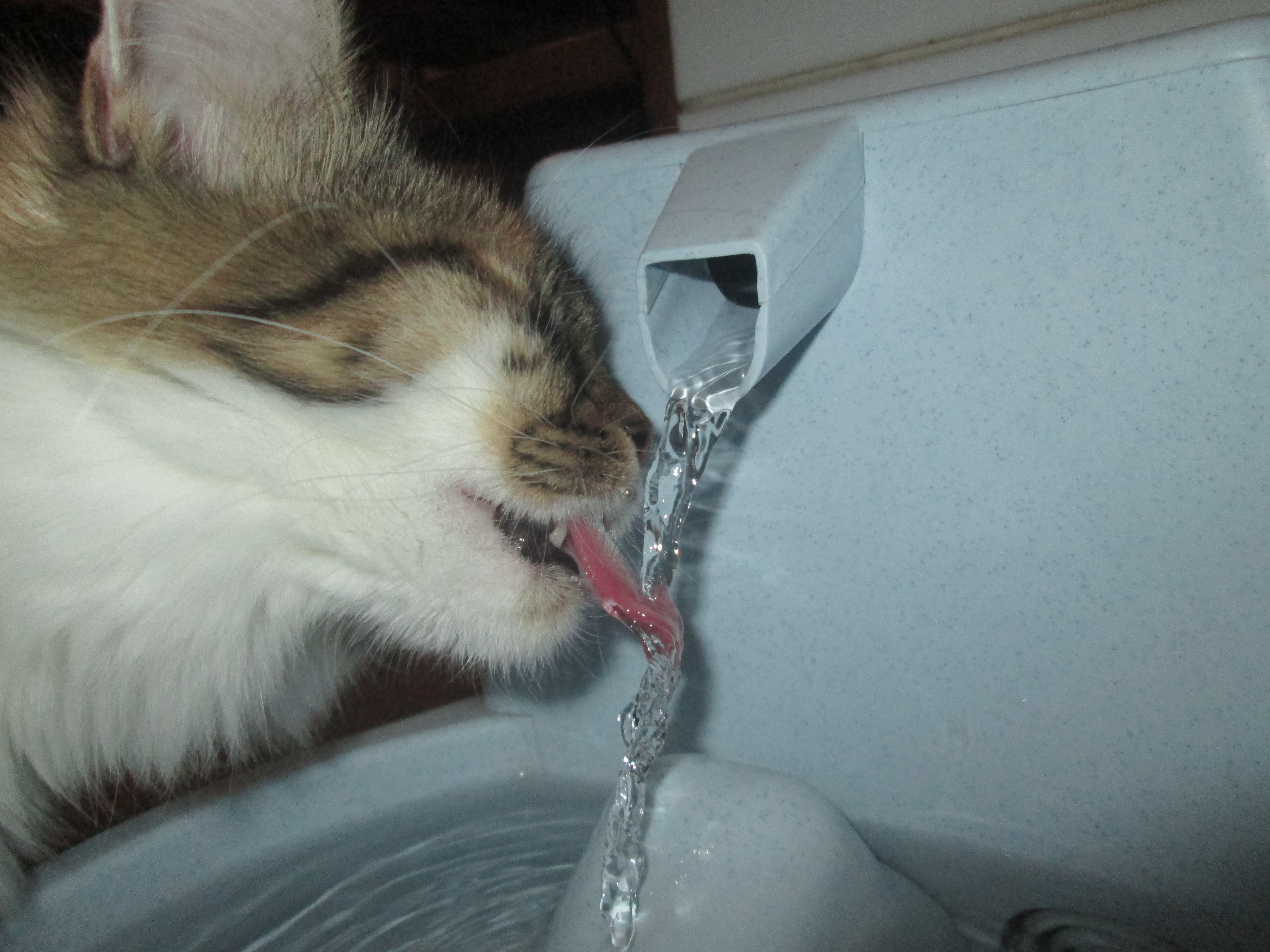 This is my cat. I took a photo of her drinking water from a fountain